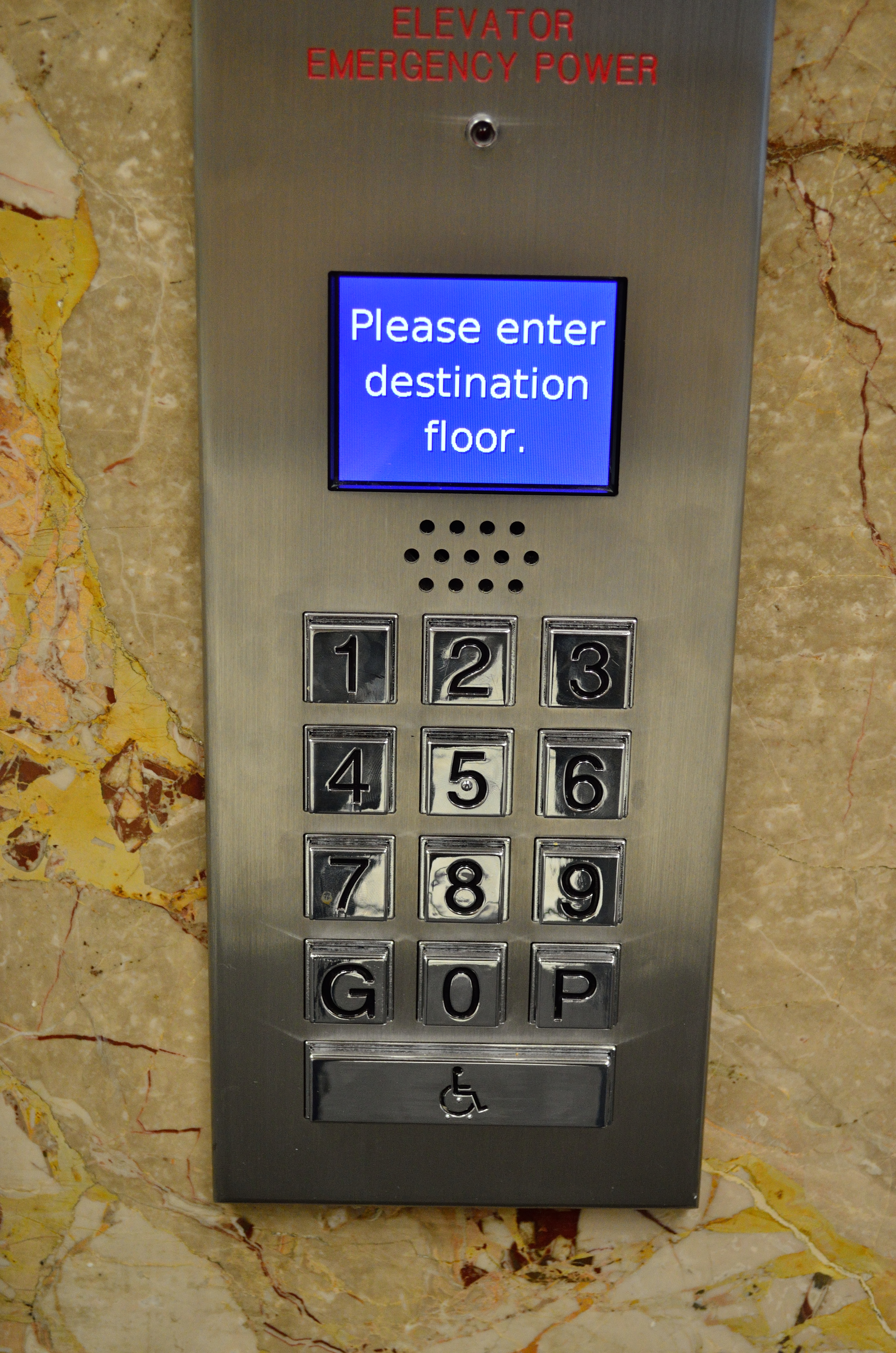 Destination dispatch elevator keypad.